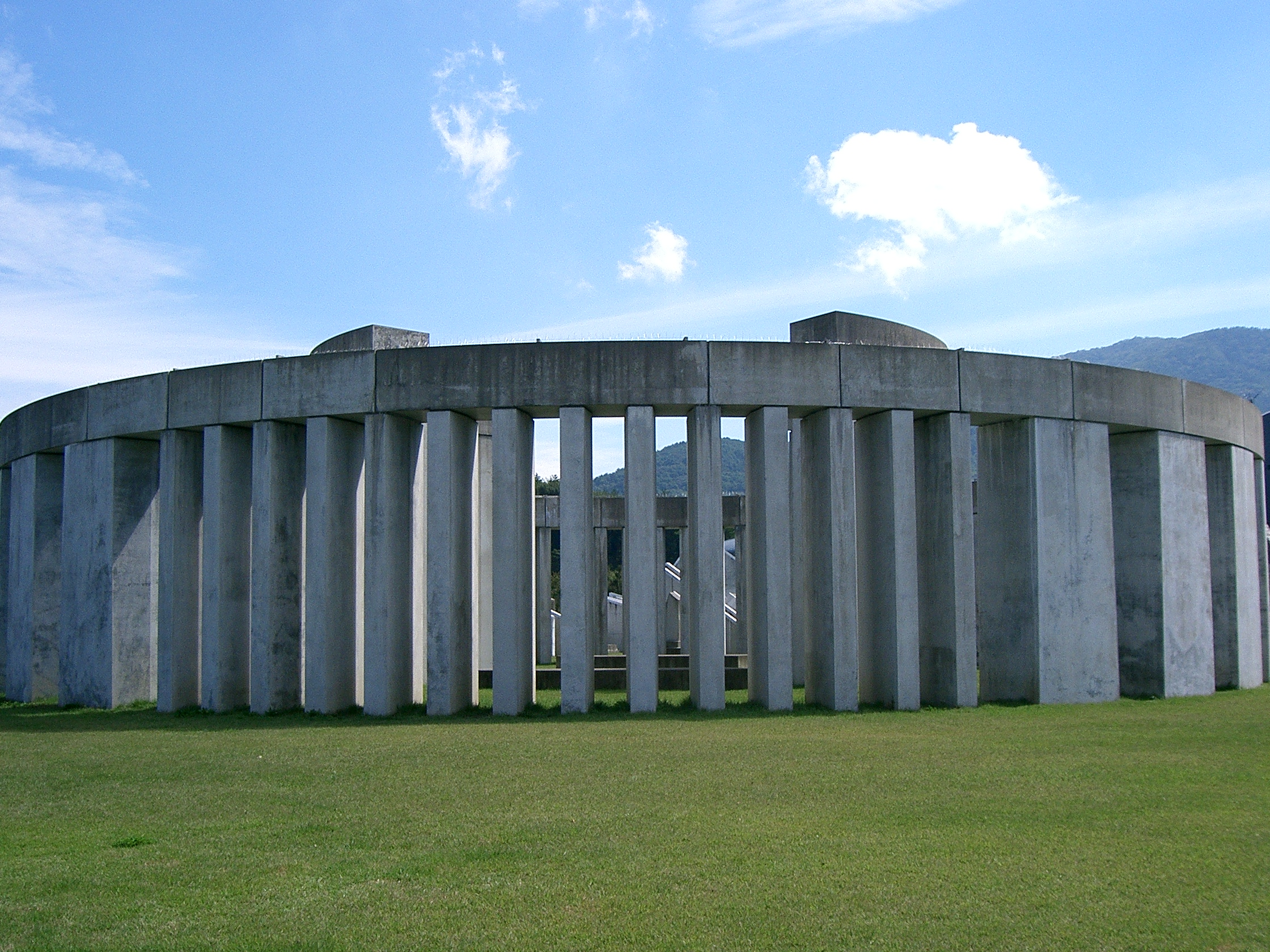 Reproduction of Stonehenge in Gunma Astronomical Observatory (GAO)